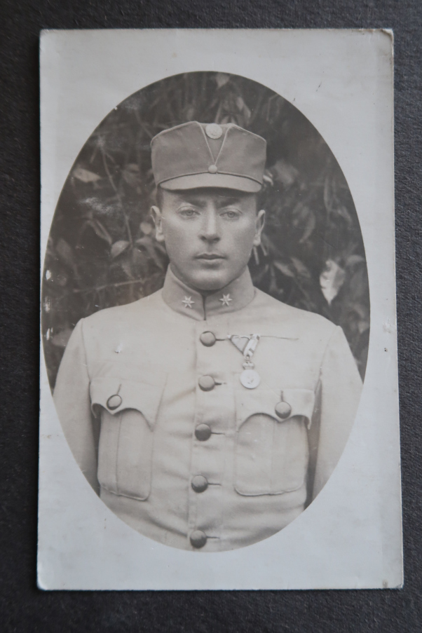 Co founder of Plast Petro Franko as officer of Ukrainian Galician Army